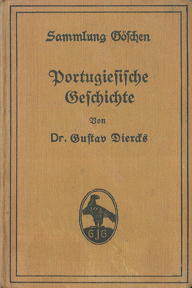 Front cover of Gustav Diercks' book Portugiesische Geschichte (Portuguese history), Volume 622 of the Goeschen collection